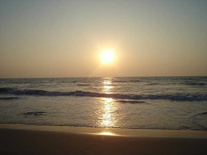 Tannirubhavi beach in January 2008